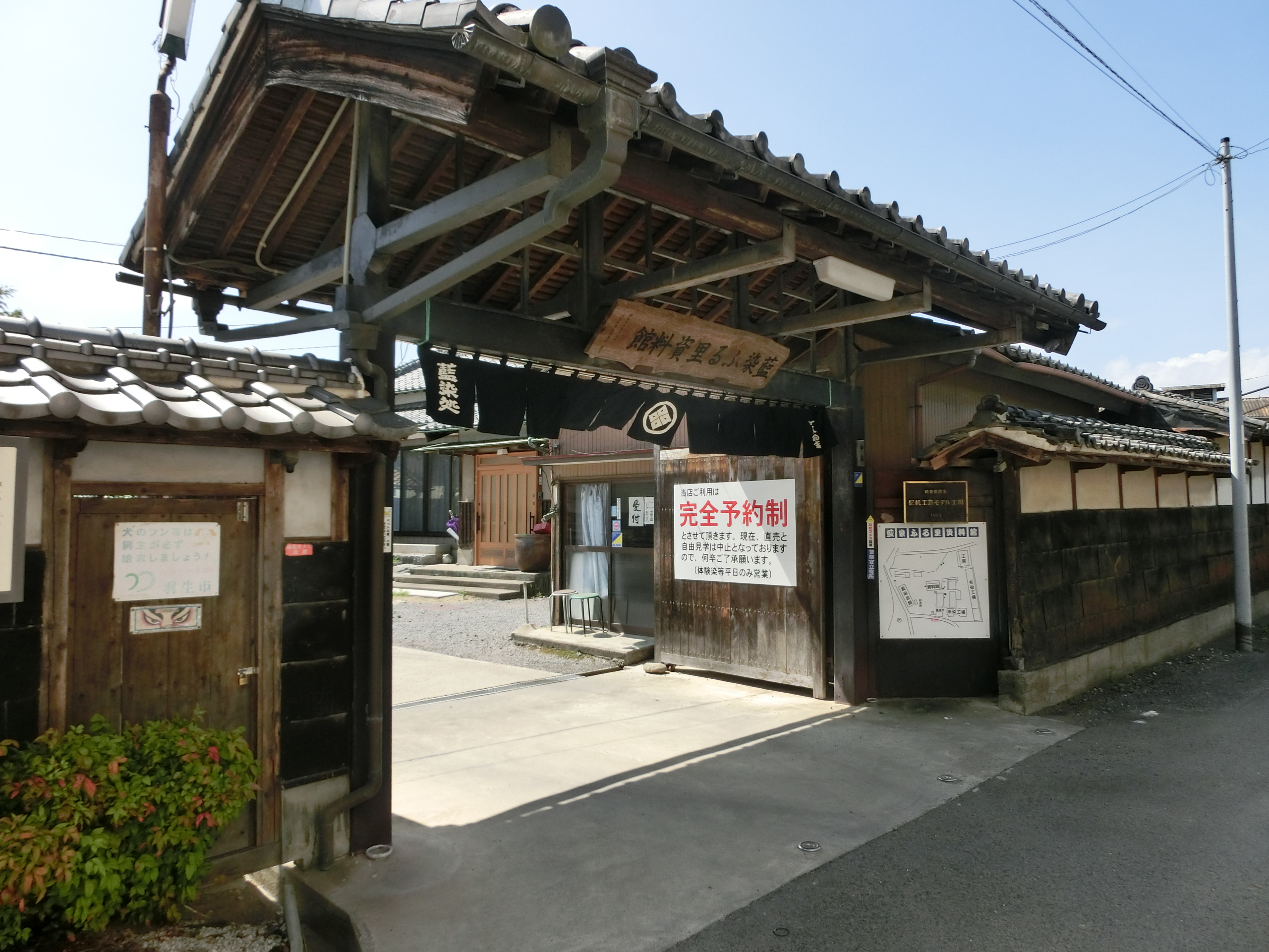 Bushu Nakajimakonya